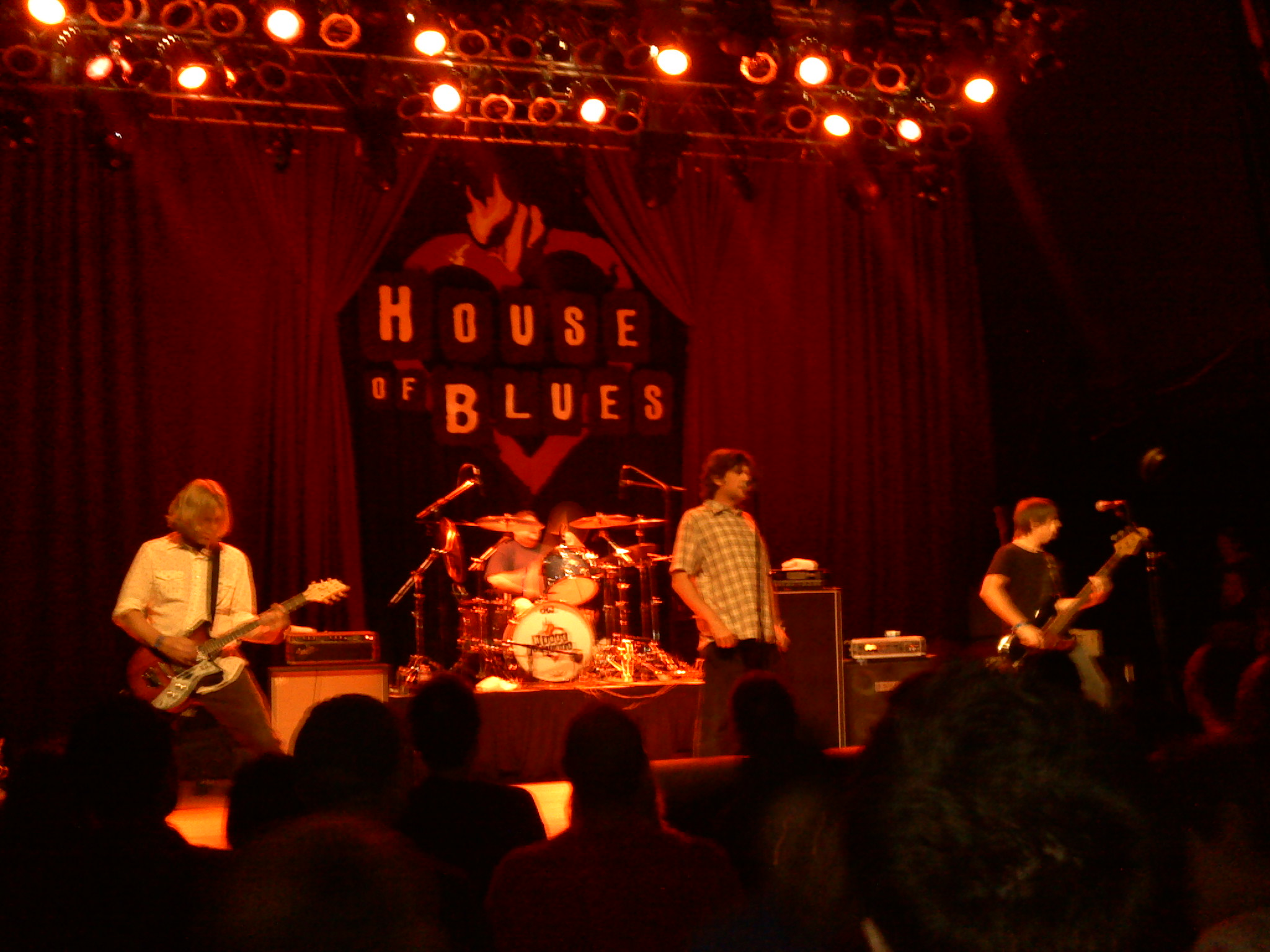 Big Drill Car performing at the House of Blues in San Diego, California on July 7, 2009. Left to right: guitarist Mark Arnold, drummer Danny Marcroft, singer Frank Daly, and bassist Bob Thomson.